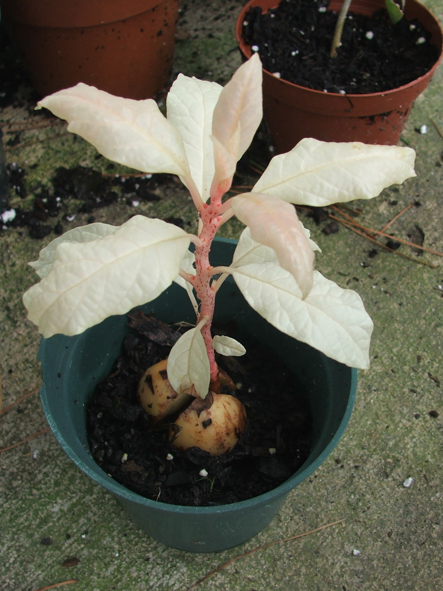 Albino Avocado tree